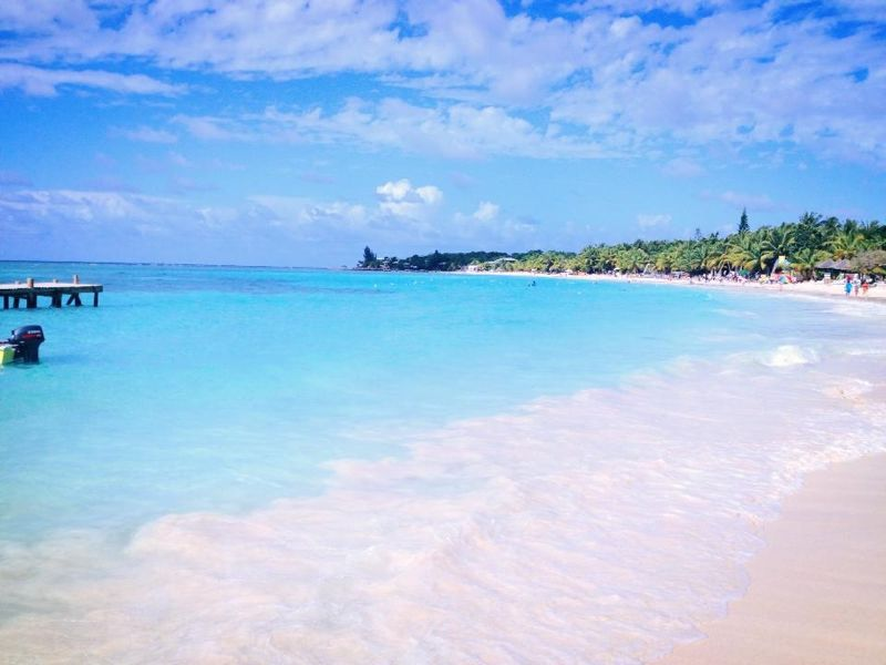 West Bay